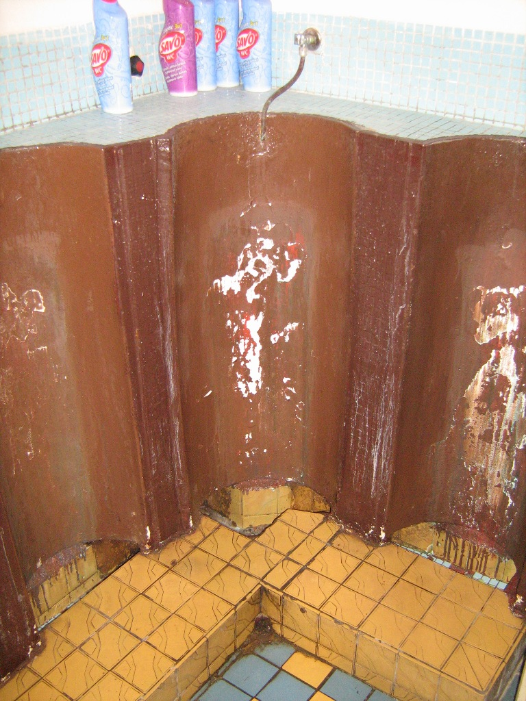 Toilets in mountain hut Na Prašivé,Malá Prašivá, Czech republic